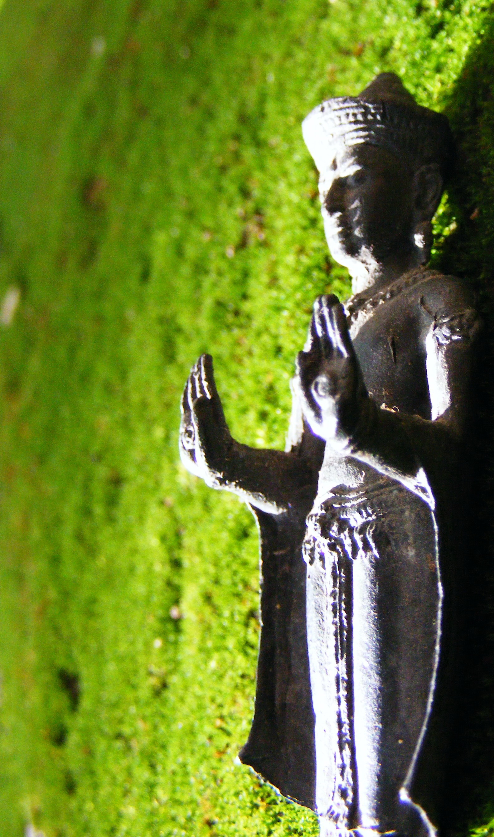 Buddha in Khmer Art Location: Wat Khung Taphao Ban Khung Taphao, Khung Taphao subdistrict, Mueang Uttaradit, Uttaradit Province, Thailand.